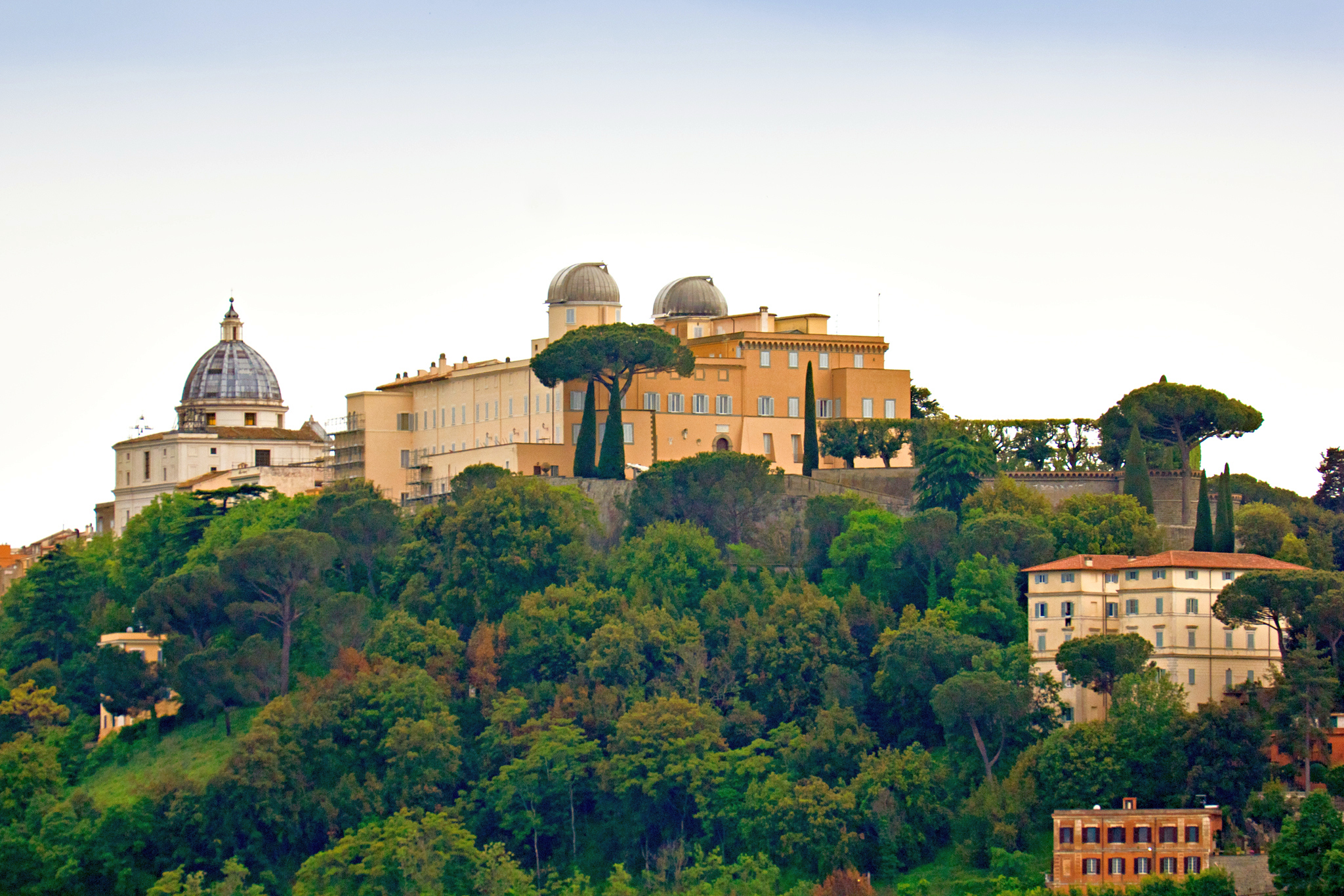 The pontifical palace in Catsel Gandolfo, with two domes of the Vatican Observatory on top. The domes are were built in 1935. The larger one (right) has a diameter of 8.5 m and houses a Zeiss 40/600cm visual refracor. The other has a diameter of 8.0 m and is equpied with Zeiss double telescope, consisting of a four-lens astrograph 40/200 cm and a 60 cm relector that can be used as Newtonian reflector with 240 cm focal length, or in Cassagrain configuration with an focal length of Equivalent 820 cm. The church of St. Thomas of Villanova is visible to the left of the palace.